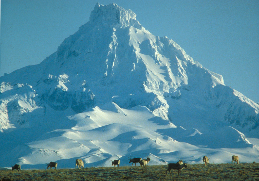 Caribou Herd and Isanotski Peak. Isanotski Peak is located on Unimak Island. This island is part of the Alaska Maritime National Wildlife Refuge but is administered by the Izembek National Wildlife Refuge.